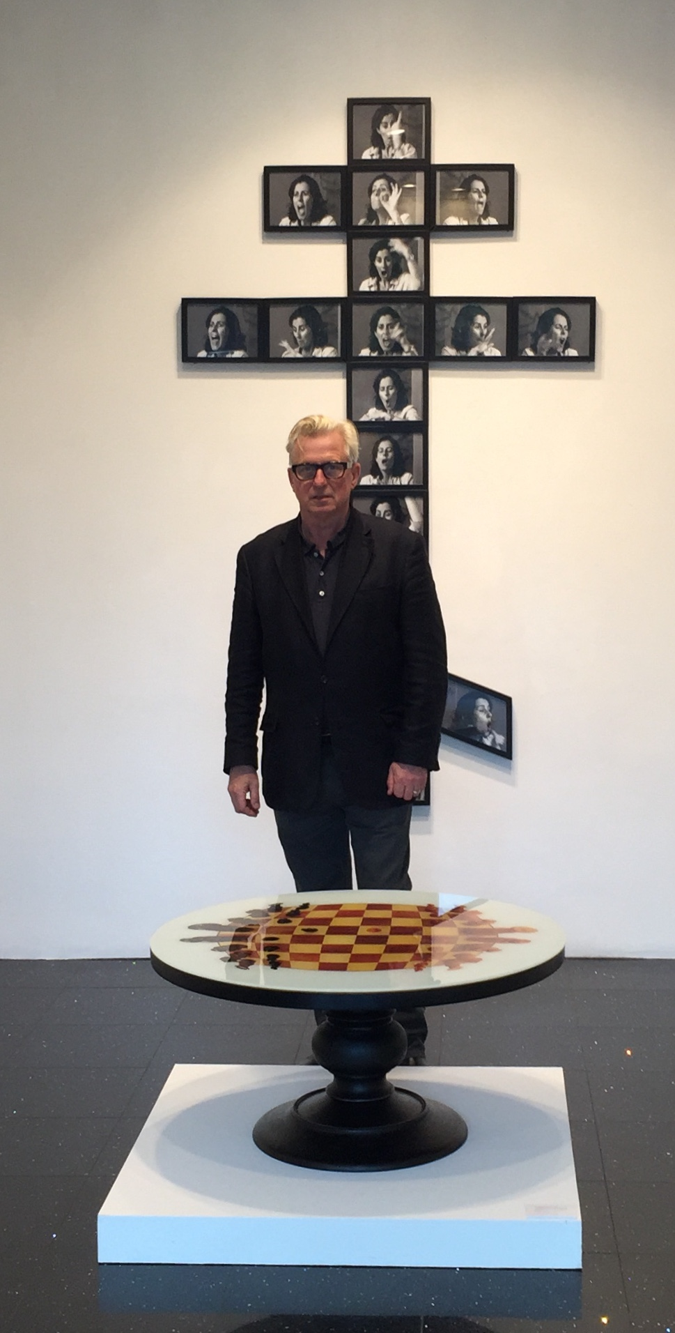 Vaughan Grylls at GX Gallery, London, November 2014